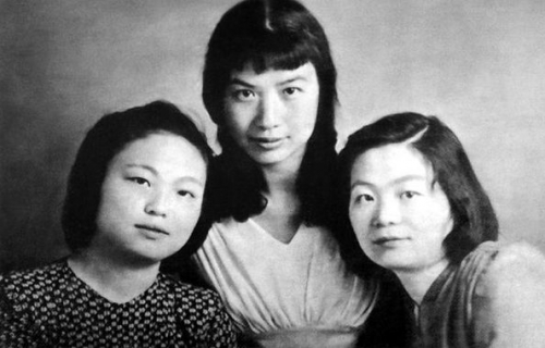 Sun Weishi and friend. 林琳（左）、孫維世（中）、林利（右），1945年7月，莫斯科。